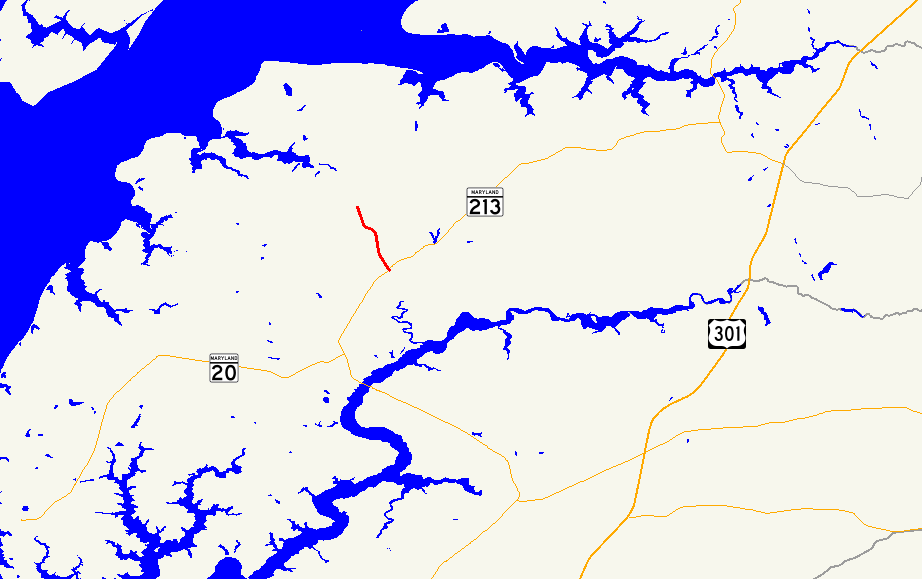 Map of Maryland Route 561